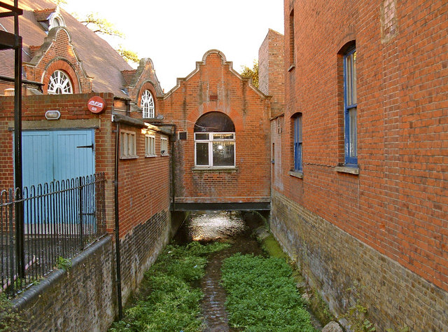 Cornmill Stream which runs beside the Town Hall, Waltham Abbey.